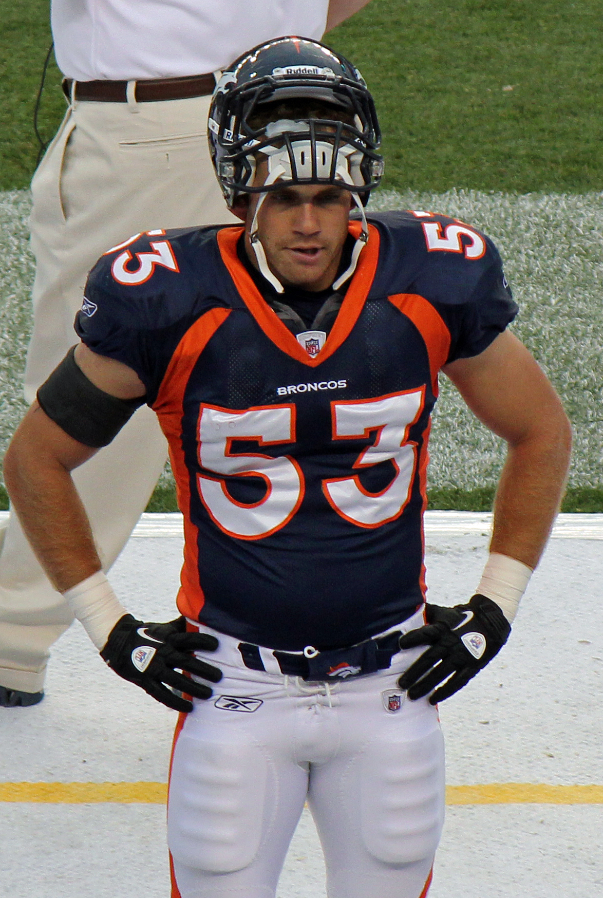 Mike Mohamed, a National Football League player.